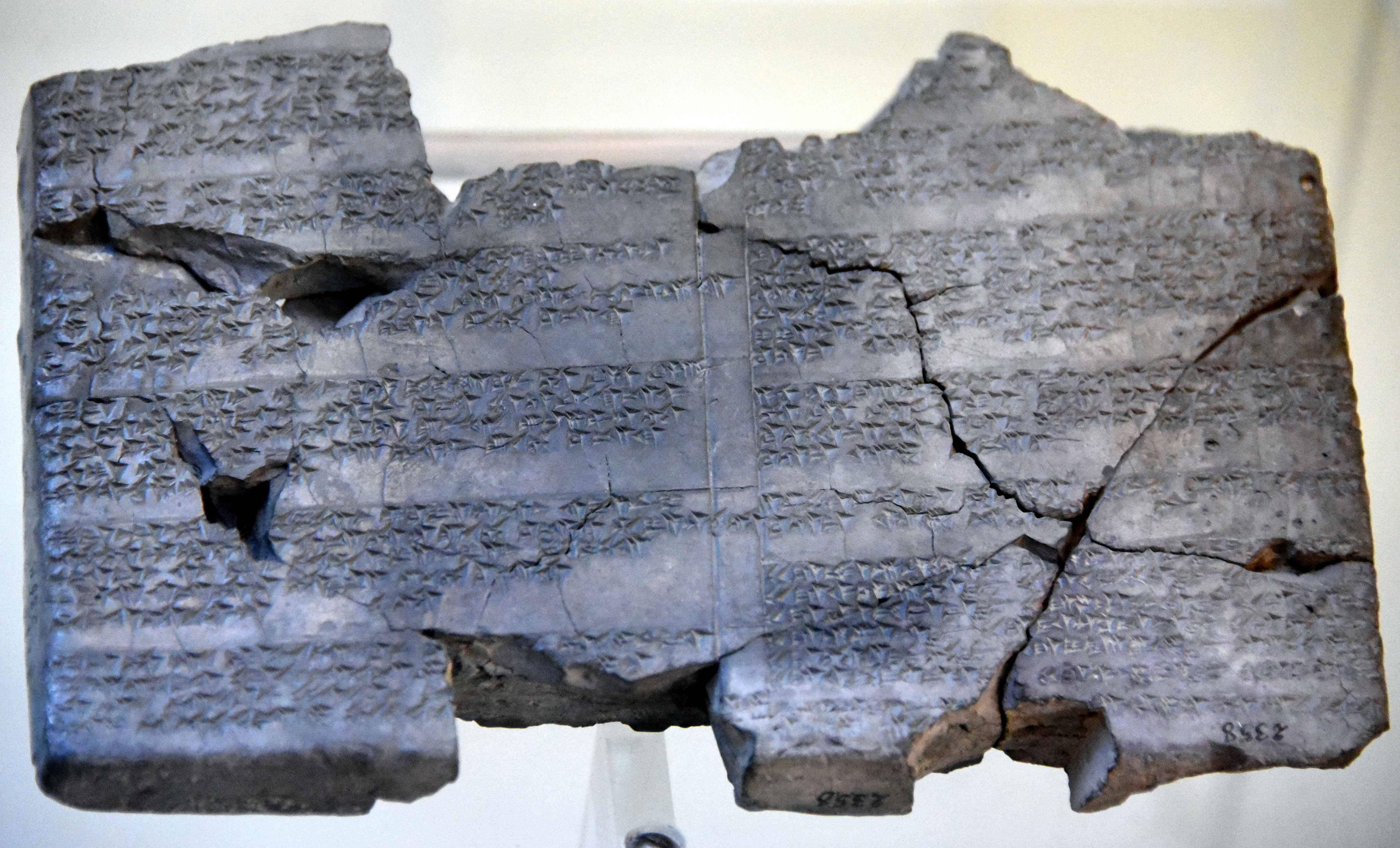 Prayers by the Hittite king Arnuwanda and queen Asmu-Nikkal, imploring the gods to help them. 14th century BC. From Hattusa, Turkey. Istanbul Archaeological Museum, Turkey.